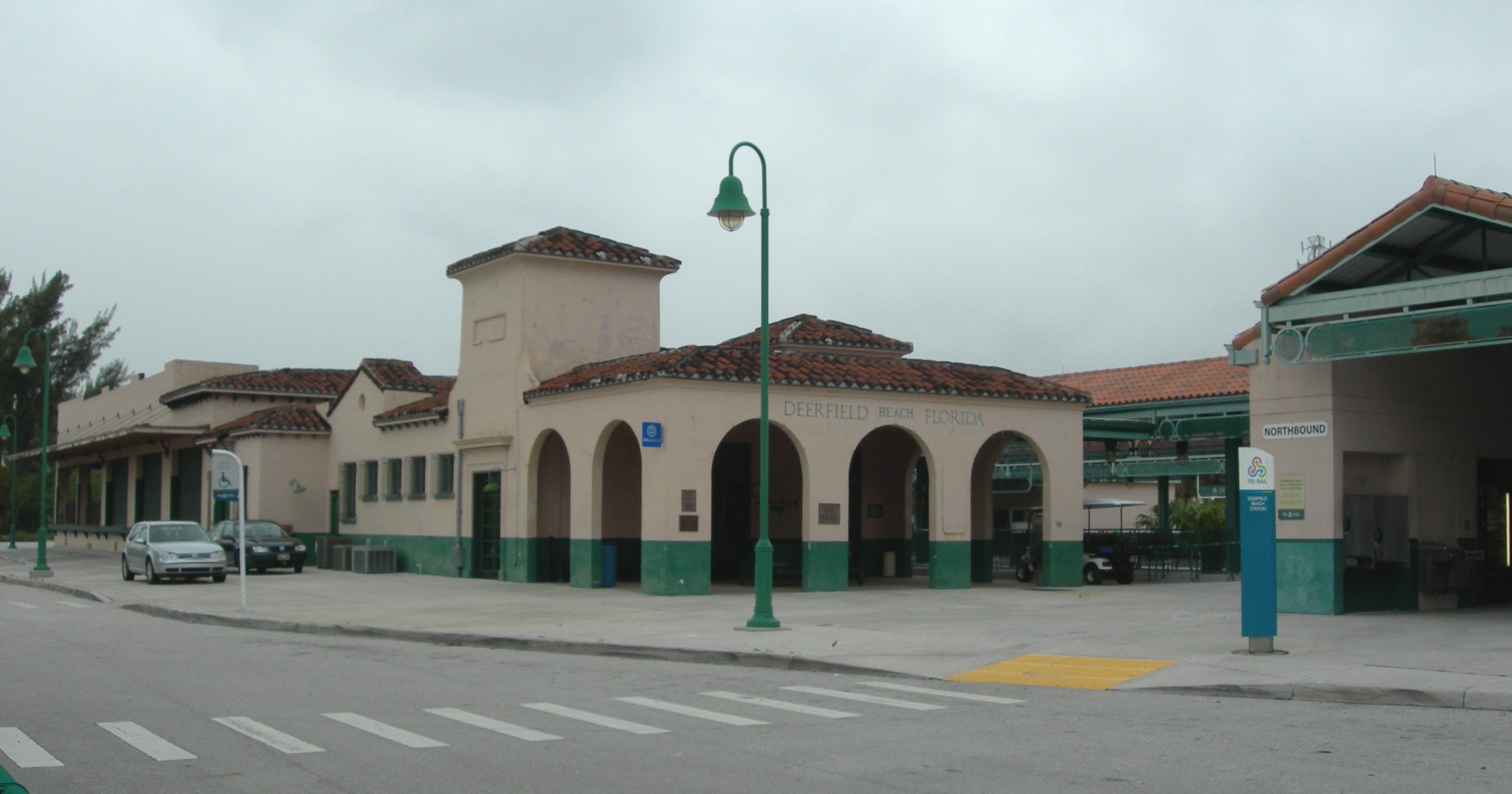 Tri-Rail / Amtrak train station in Deerfield Beach, Florida